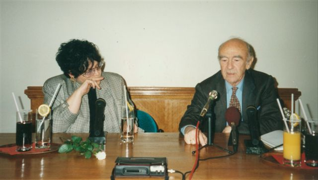 Alina Perth-Grabowska (1935-2006) and Karl Dedecius (b. 1921)